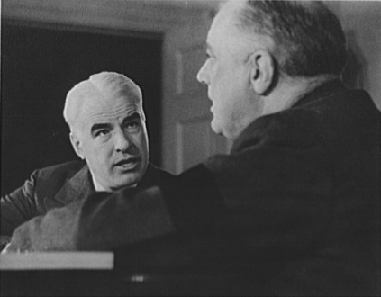 Edward R. Stettinius Jr., and President Roosevelt. Edward R. Stettinius Jr., lend-lease Administrator, discusses the Seventh lend-lease Report which he has just handed to the President for transmittal to congress. The report showed that lend-lease aid had increased more than a third in the last three months and was now being provided at the rate of $10,000,000,000 a year